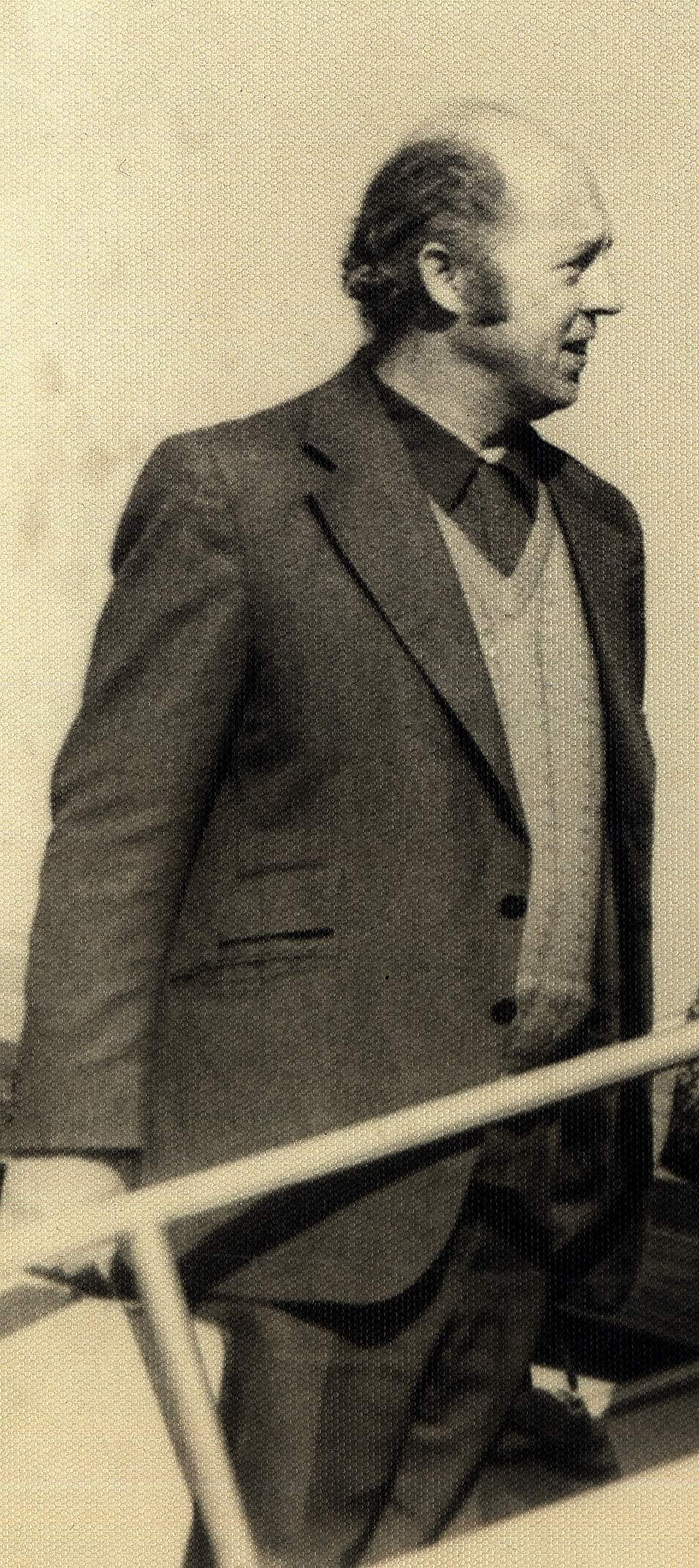 Jochem Kummerow, april 1973